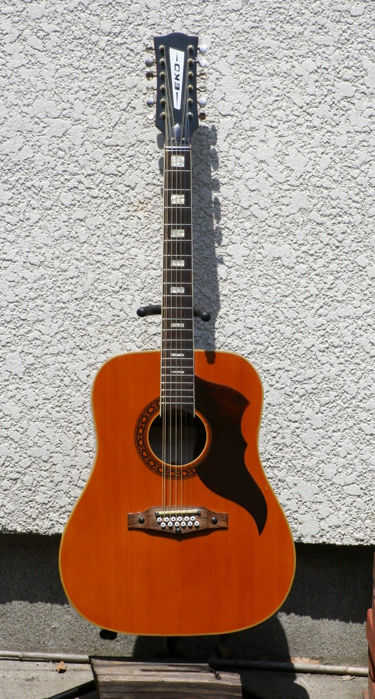 italan guitar 12strings Bolt-on bound, inlayed necks with zero fret are fitted to bodies with an adjustable bridge saddle